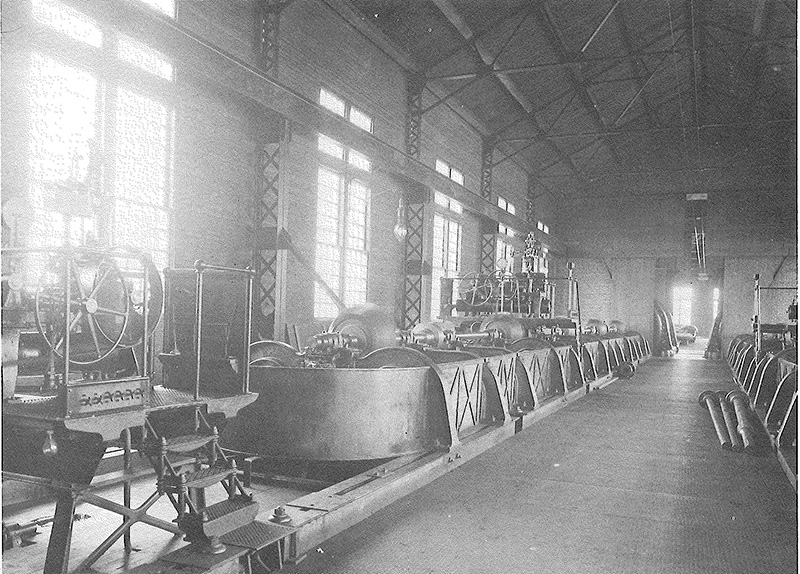 Generator shaft spinning and a generator in the background inside the Lachine hydroelectric power plant in 1900.